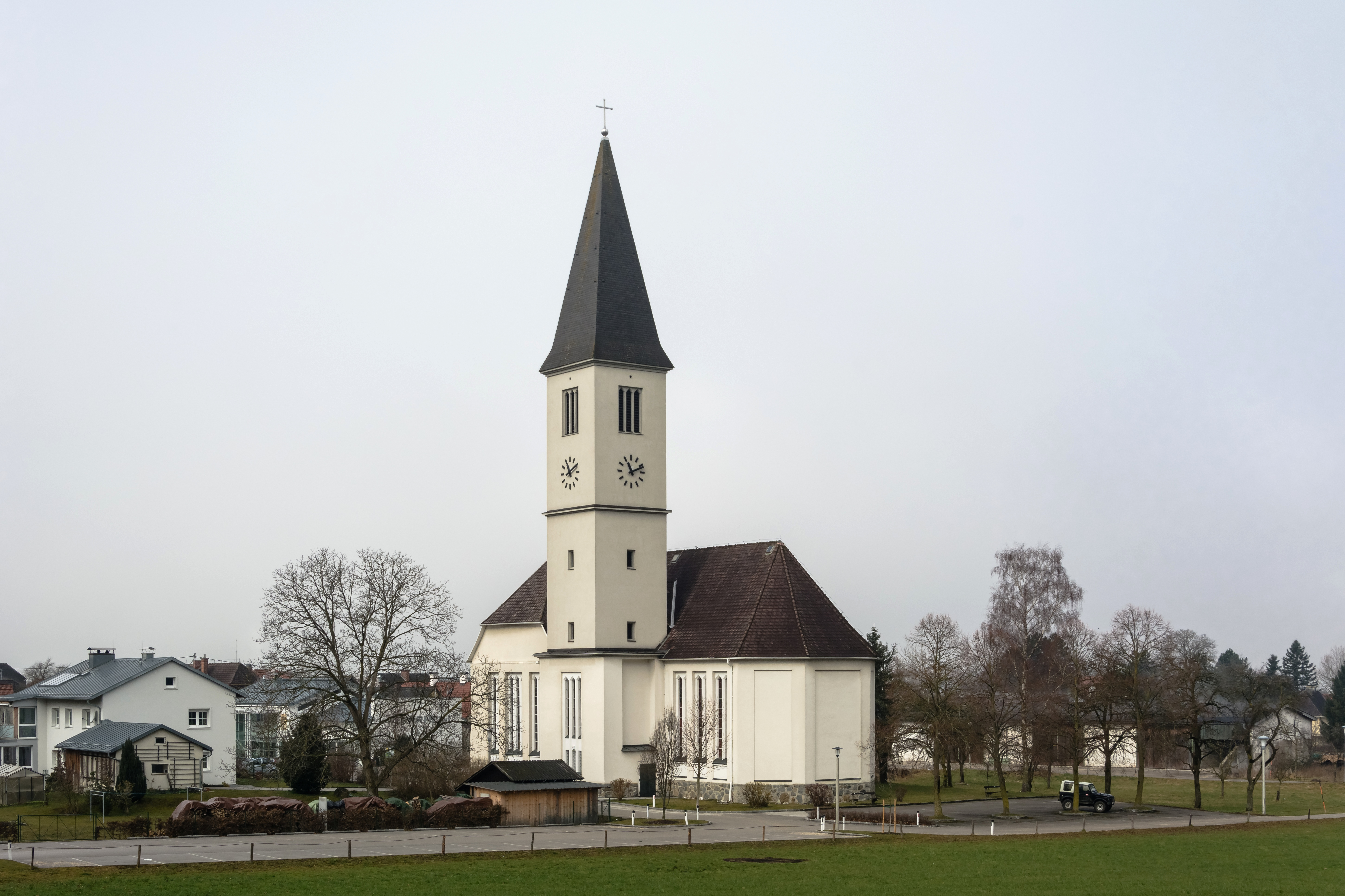 The Catholic parish church St. Joseph in Micheldorf (Upper Austria) is protected as cultural heritage monument.